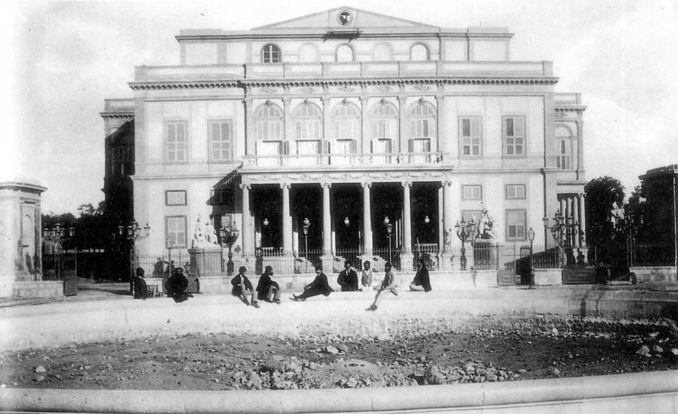 One of the earliest photographs of the Khedivial Opera House from the exterior, showing the Opera Square before the placing of Ibrahim Pasha's statue.